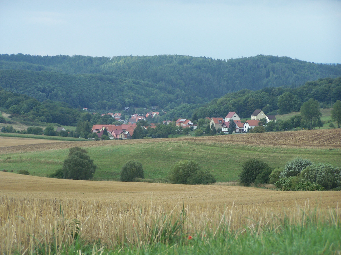 The Wolfsburg dell and the Thuringian forest behind.